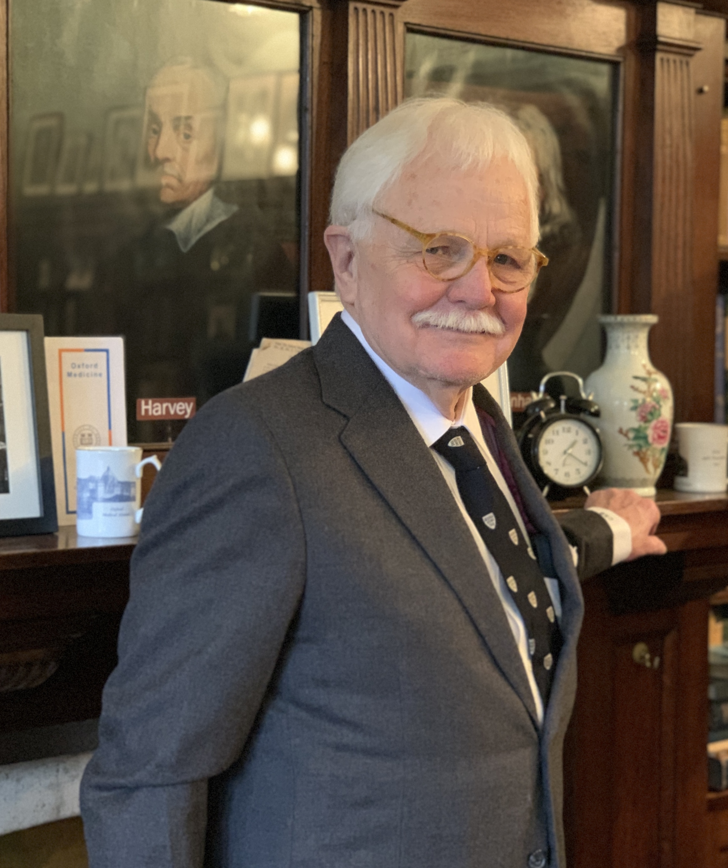 Charles S. Bryan, Norham Gardens, home of Sir William Osler, Oxford, UK. Taken on centenary of Osler's death and unveiling of his portrait